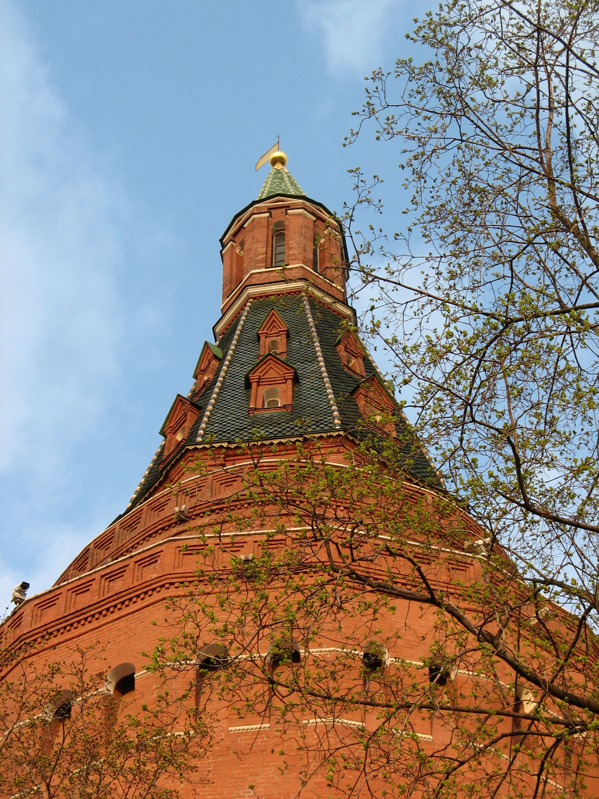 Uglovaya Arsenalnaya tower of Moscow Kremlin